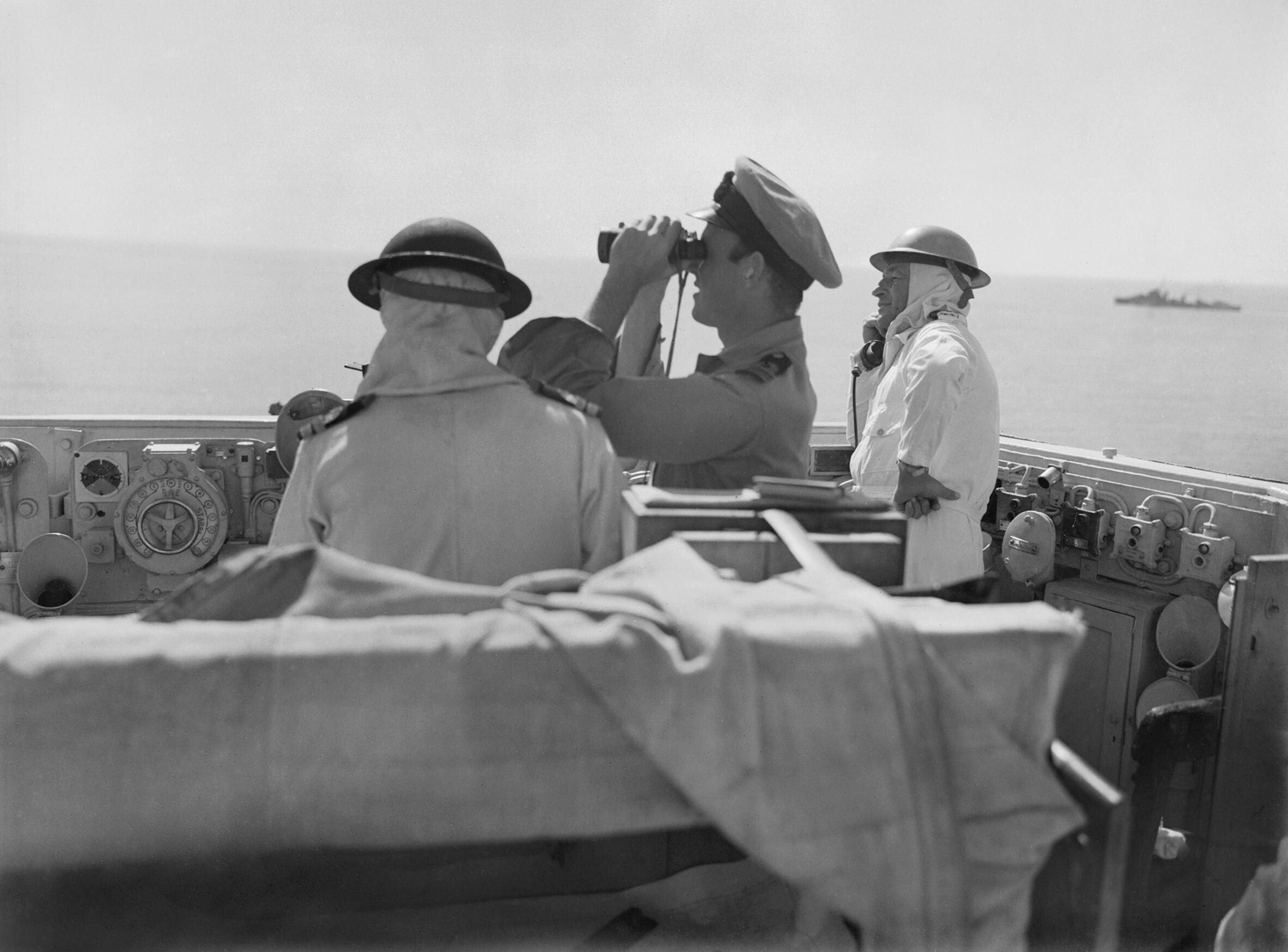 The Royal Navy during the Second World War Captain Packer, of HMS WARSPITE (on right) phone to his ear, directing the bombardment Reggio on the "toe" of the Italian mainland at the opening of the offensive against it, from the bridge of the battleship, while the navigator (centre) and the officer of the watch stand by. Note the men are wearing anti-flash hoods beneath their helmets possibly to prevent sunburn.